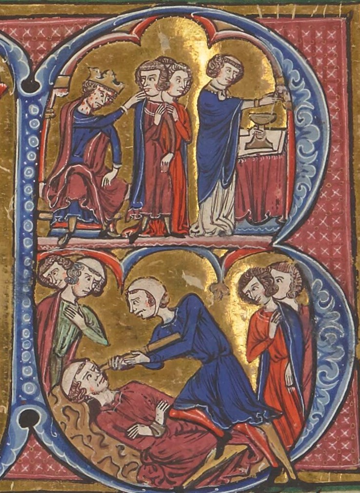 Miniature: wedding of Guy and Sibylla; blinding of Alexios Komnenos